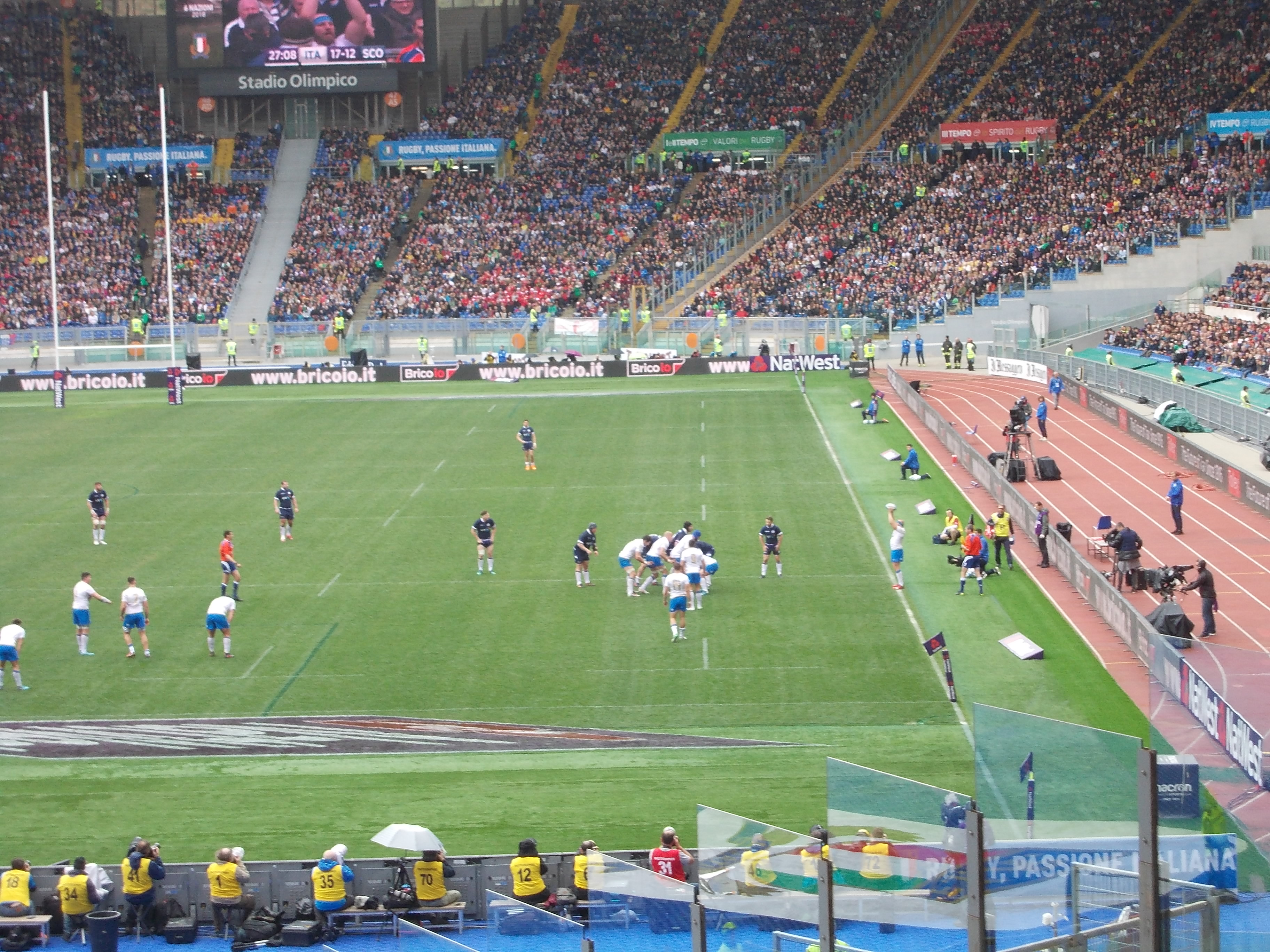 Italy-Scotland match in 2018 Six Nations; Rome 2018-03-17